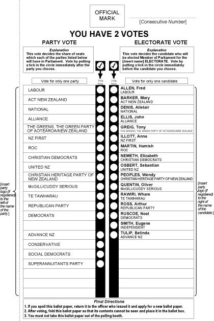 The prescribed voting form for mixed-member proportional representation general elections in New Zealand.